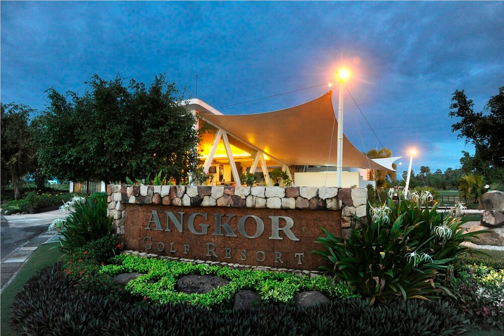 Club House in Angkor Golf Resort